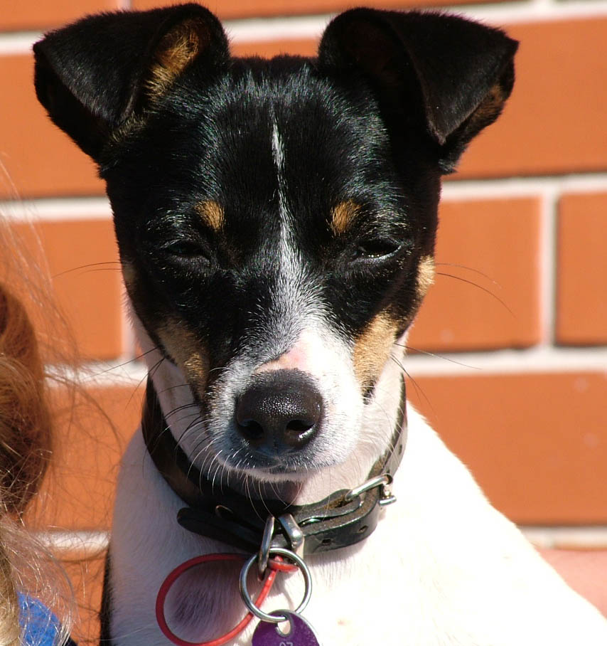 12 month-old Australian Mini-Fox Terrier.